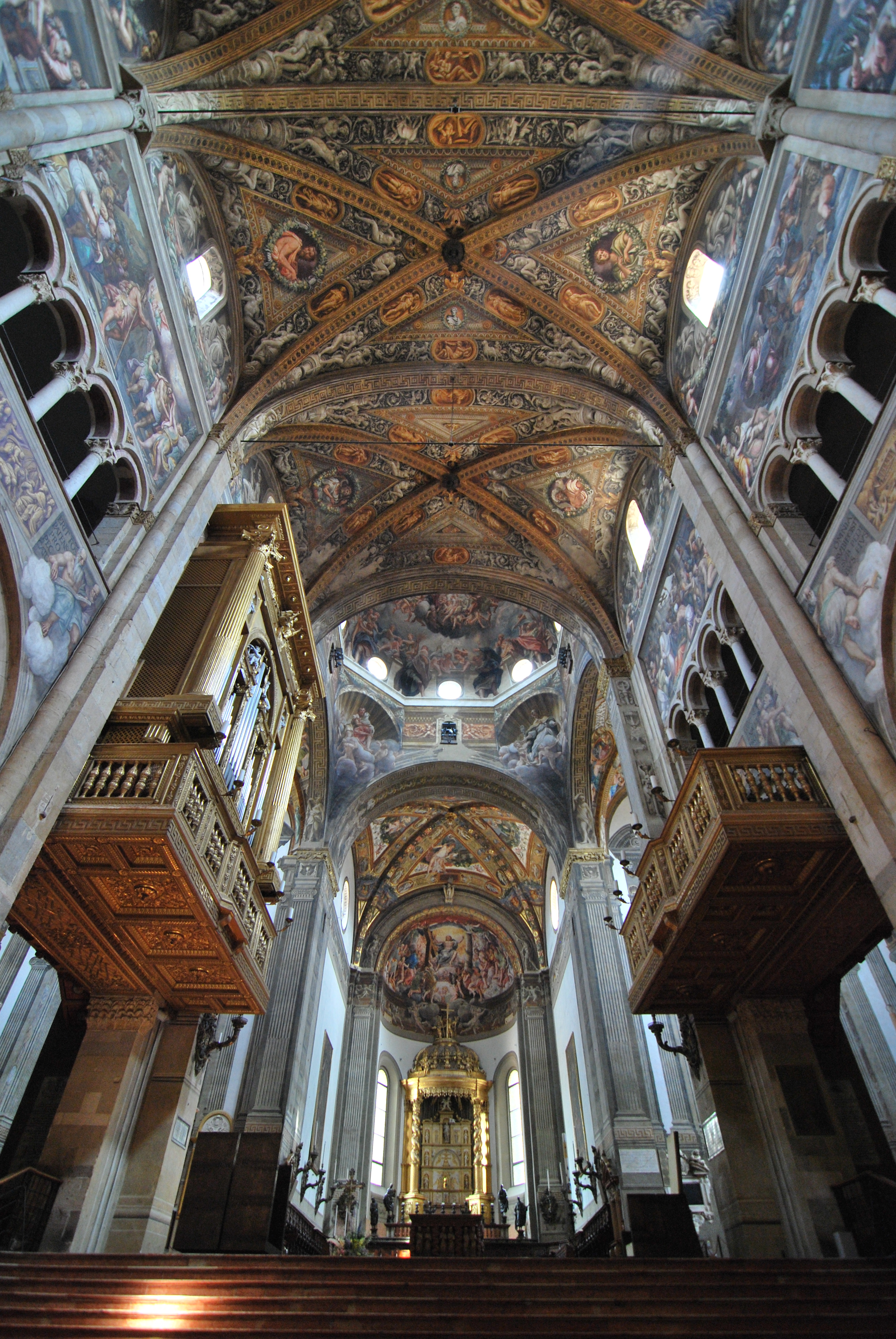 parma cathedral interior may 2009